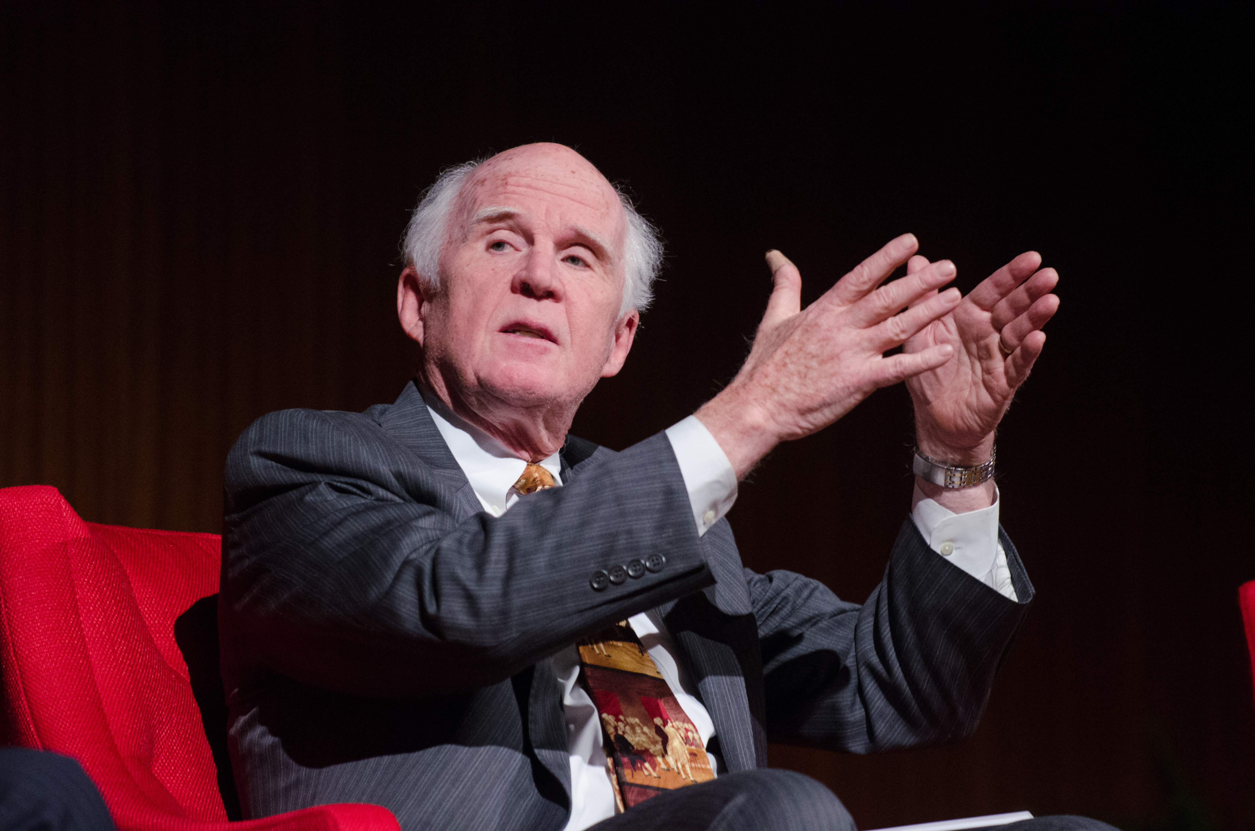 AUSTIN, APRIL 9--Taylor Branch, historian and author, participates in a Civil Rights Summit panel that took an inside look at the consequential and complex partnership between President Lyndon Johnson and Dr. Martin Luther King, Jr. Photo by Marsha Miller.